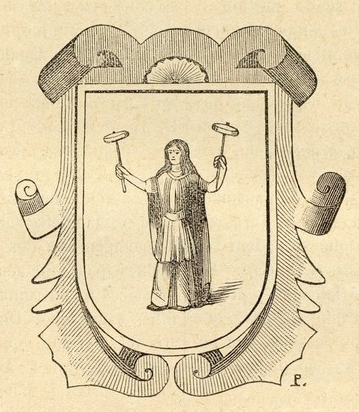 Former coat of arms of the town of Ferreira do Alentejo, in Portugal. This image was published on the Arquivo Histórico de Portugal magazine no. 21, of 1890, scanned by the Hemeroteca Municipal de Lisboa.